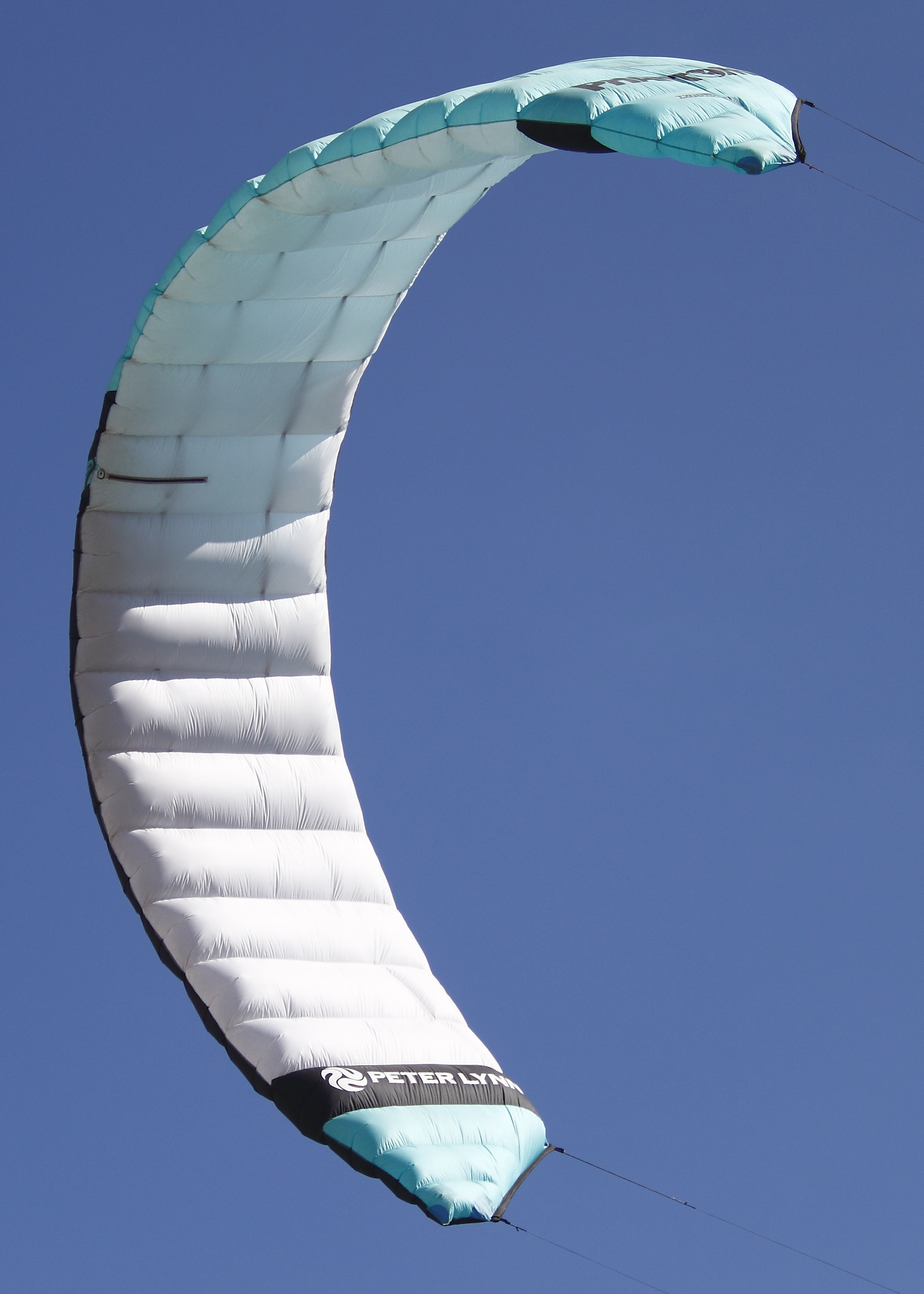 An example of a closed cell foil powerkite for use in kitesurfing.